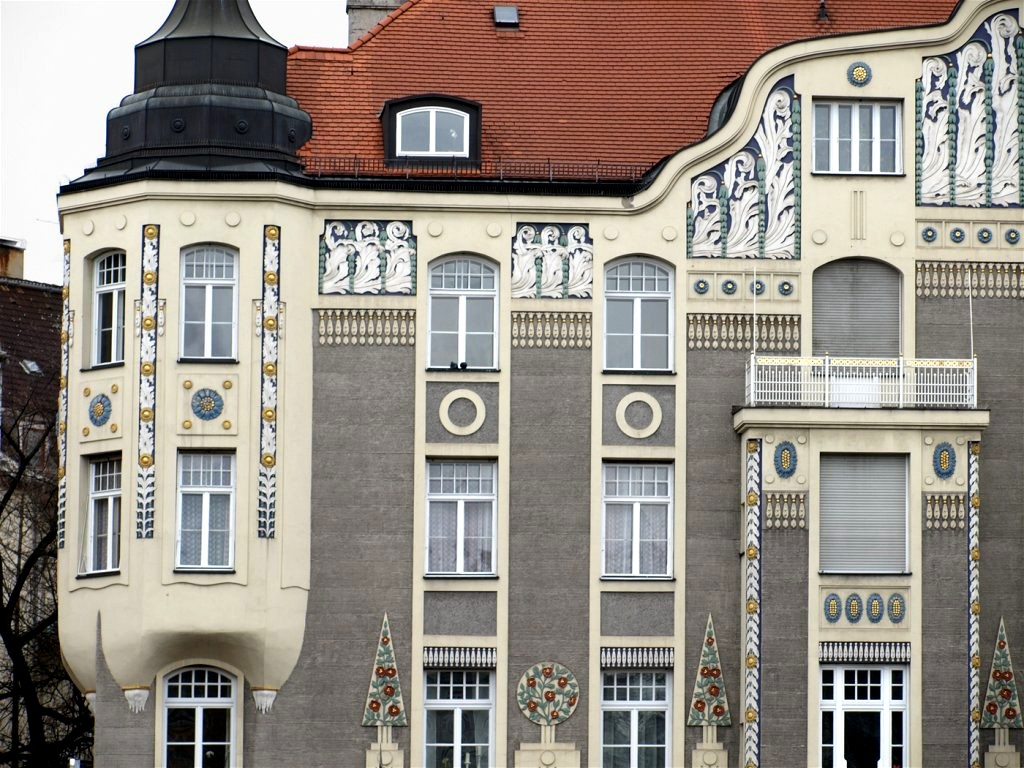 Munich (Germany), Leopoldstr. 77 (Münchner Freiheit), photo 2008